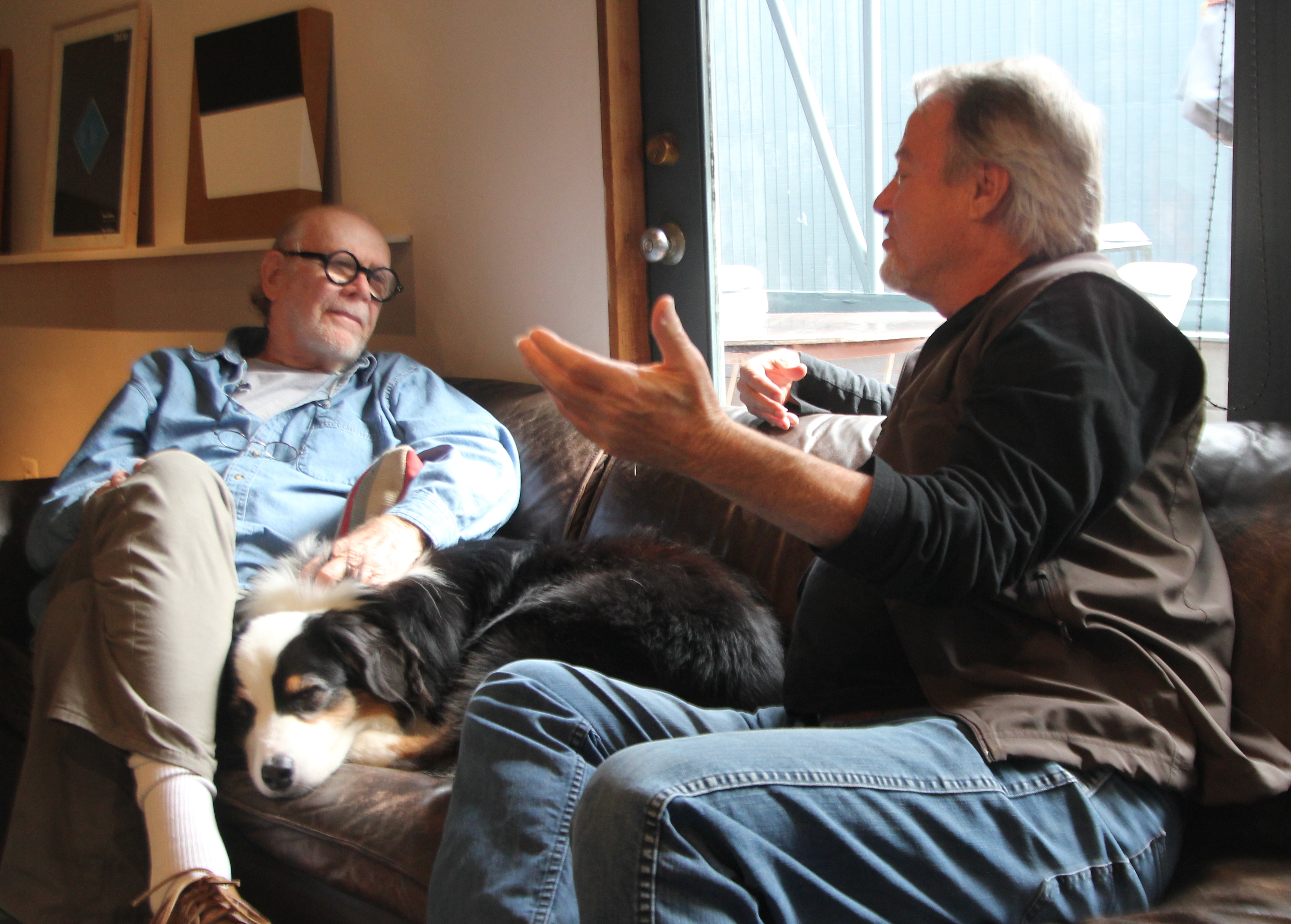 Artist Tony DeLap and Mentalist Mark Edward at home 2015